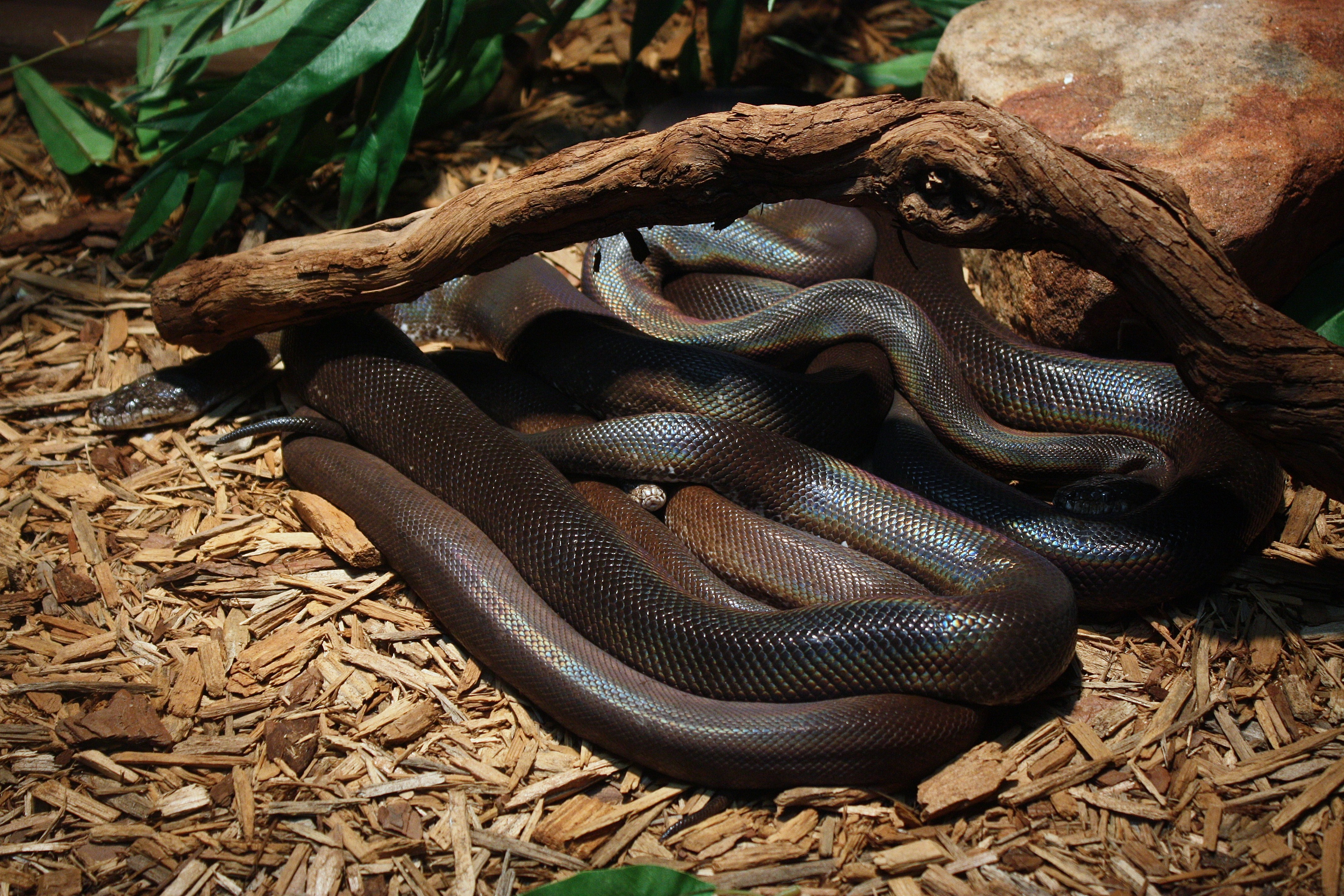 Savu pythons (Liasis mackloti savuensis), in captivity at the Columbus Zoo, Powell, Ohio.